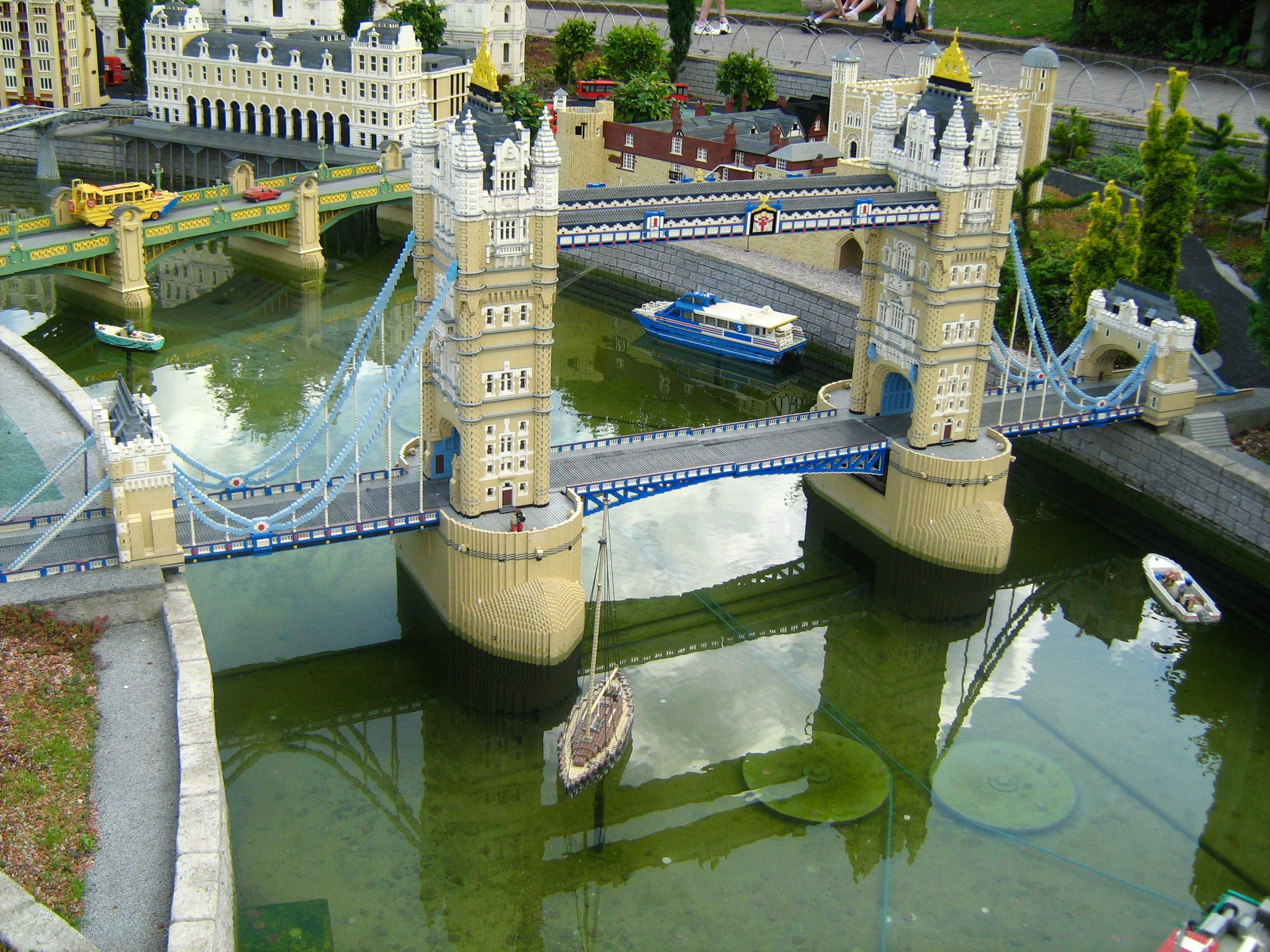 Model of Tower Bridge in Miniland, Legoland Windsor